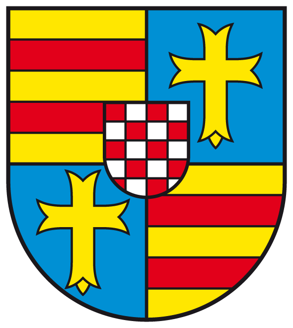 Coat of arms of Free State of Oldenburg, County Birkenfeld